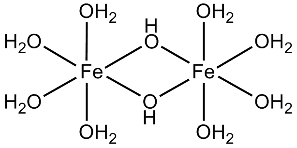 Hydroxyl bridged Fe(III) complex